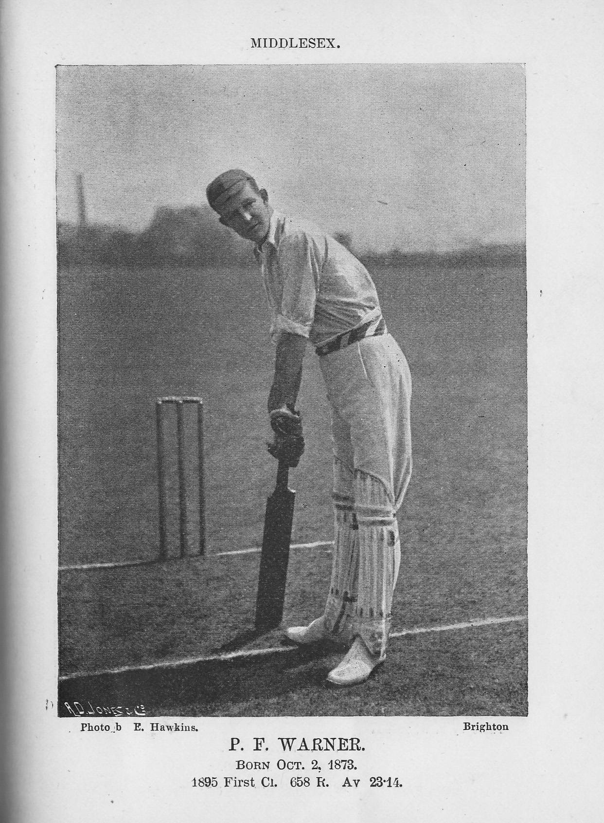 Scan of cricketer Pelham Warner